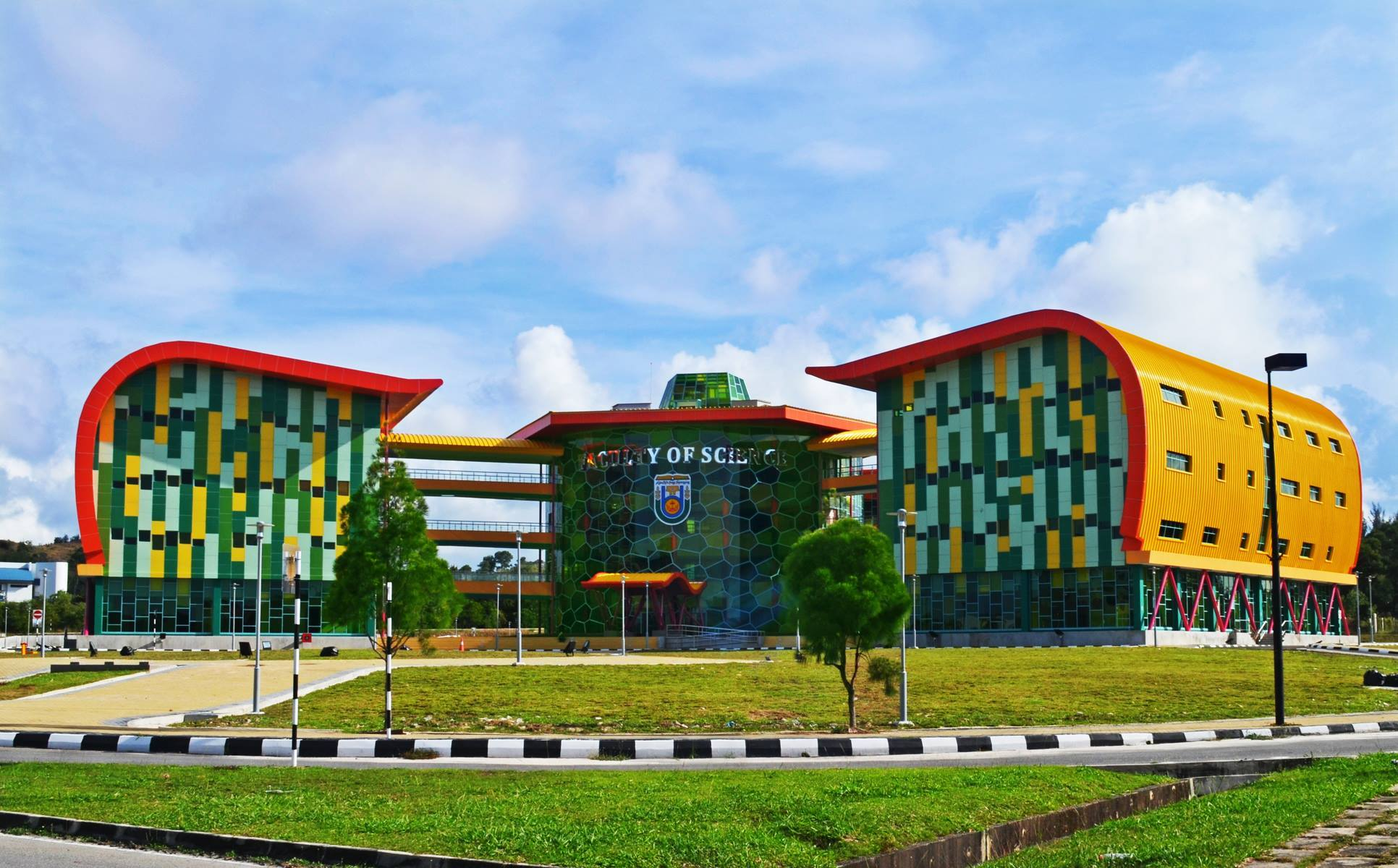 Faculty of Science in University of Brunei Darussalam